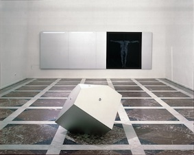 Carlo Alfano